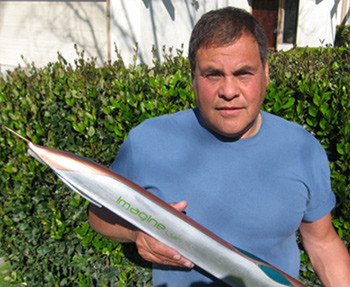 Photo of Waldo Stakes